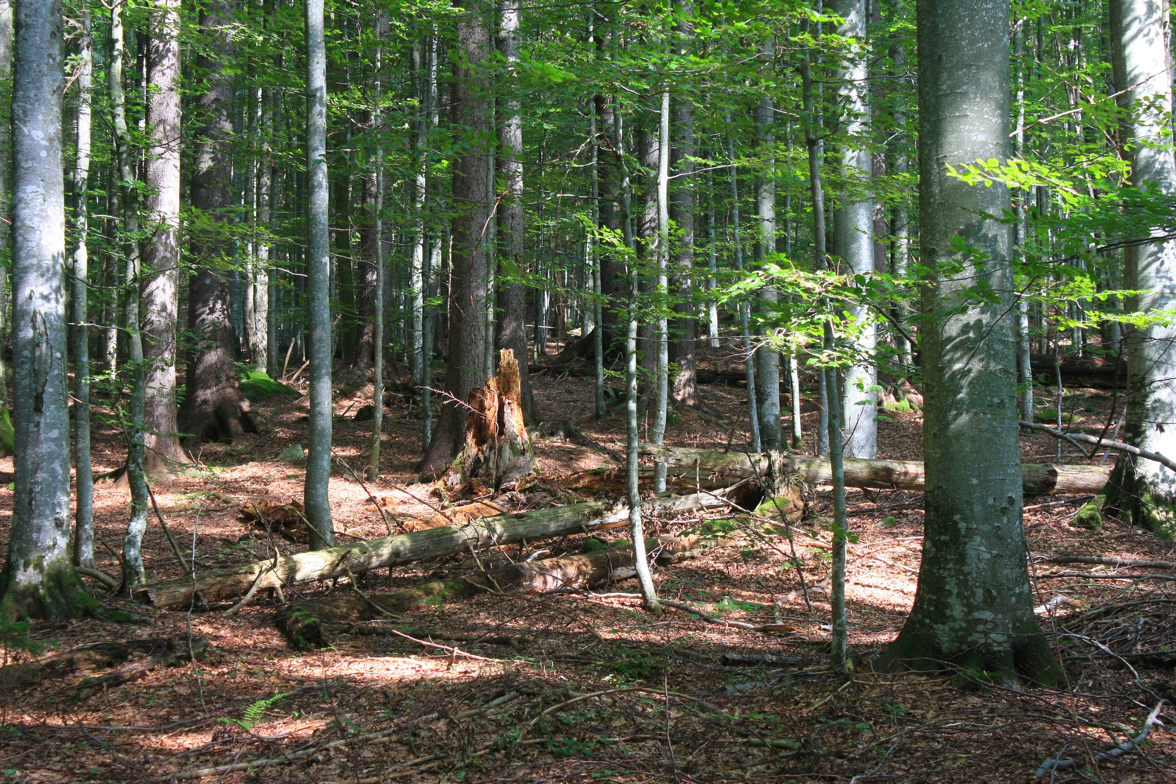 Bavarien Forest